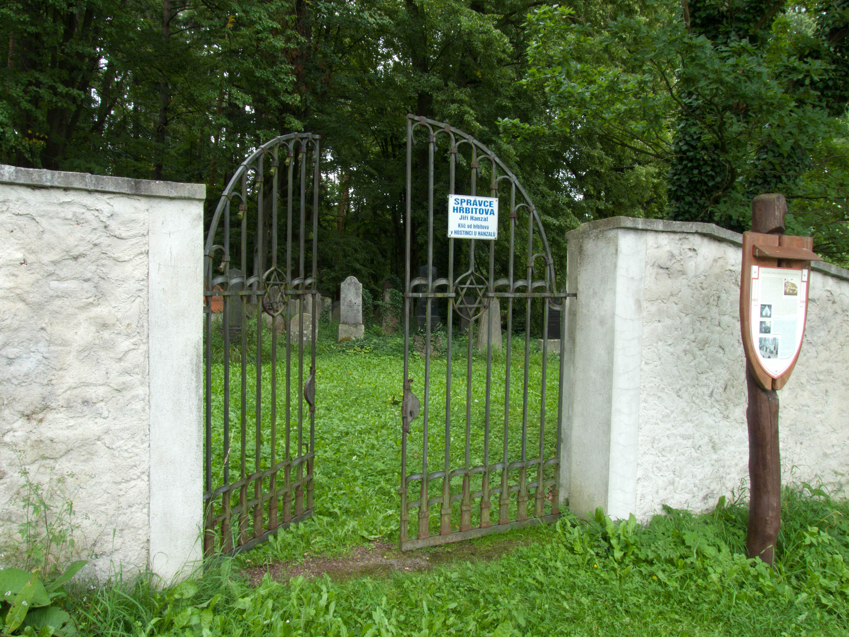 Gate of the Jewish cemetery at the village of Koloděje nad Lužnicí, České Budějovice District, Czech Republic